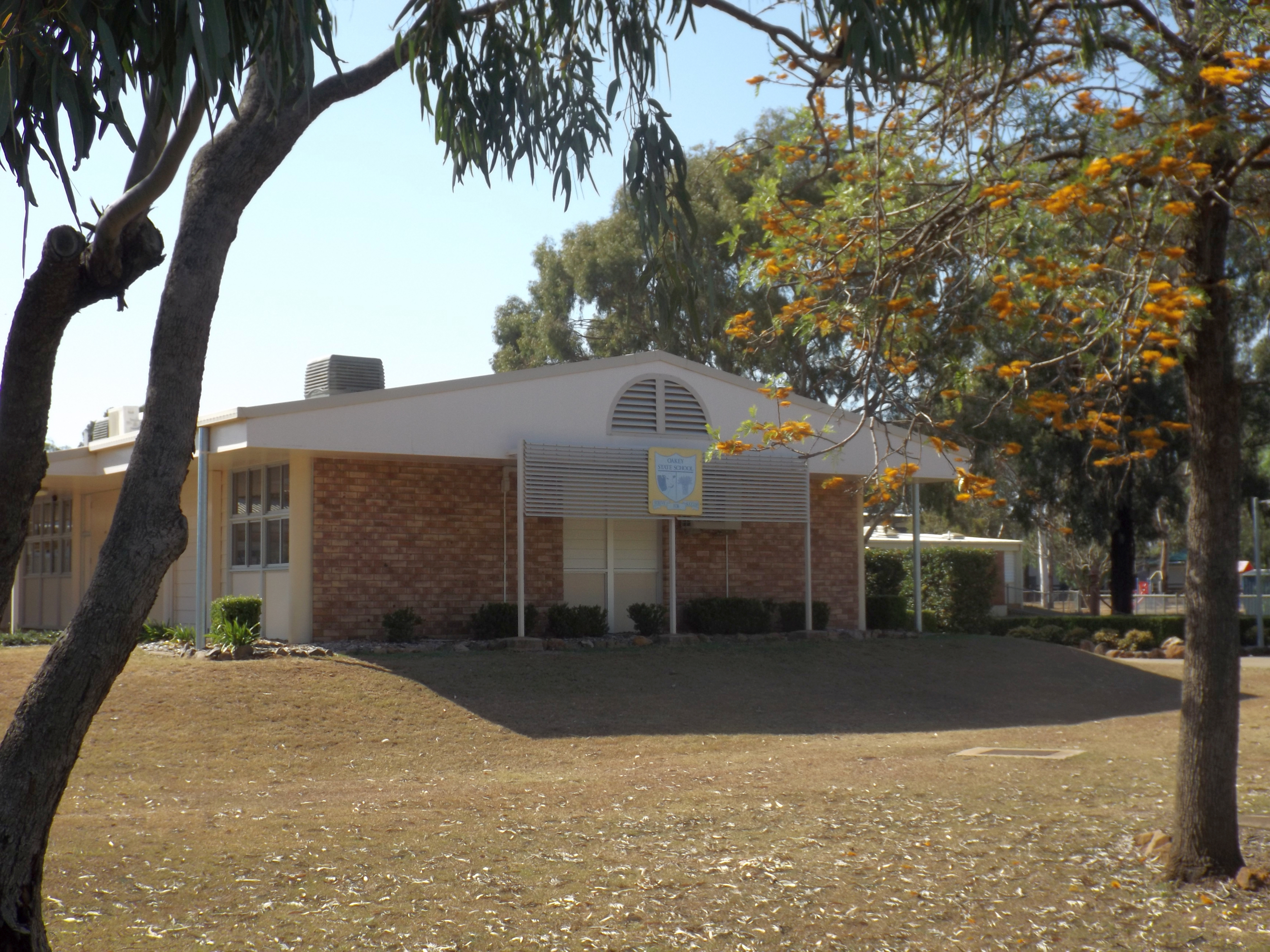 Photo of Oakey State School at Oakey, Queensland, Australia.